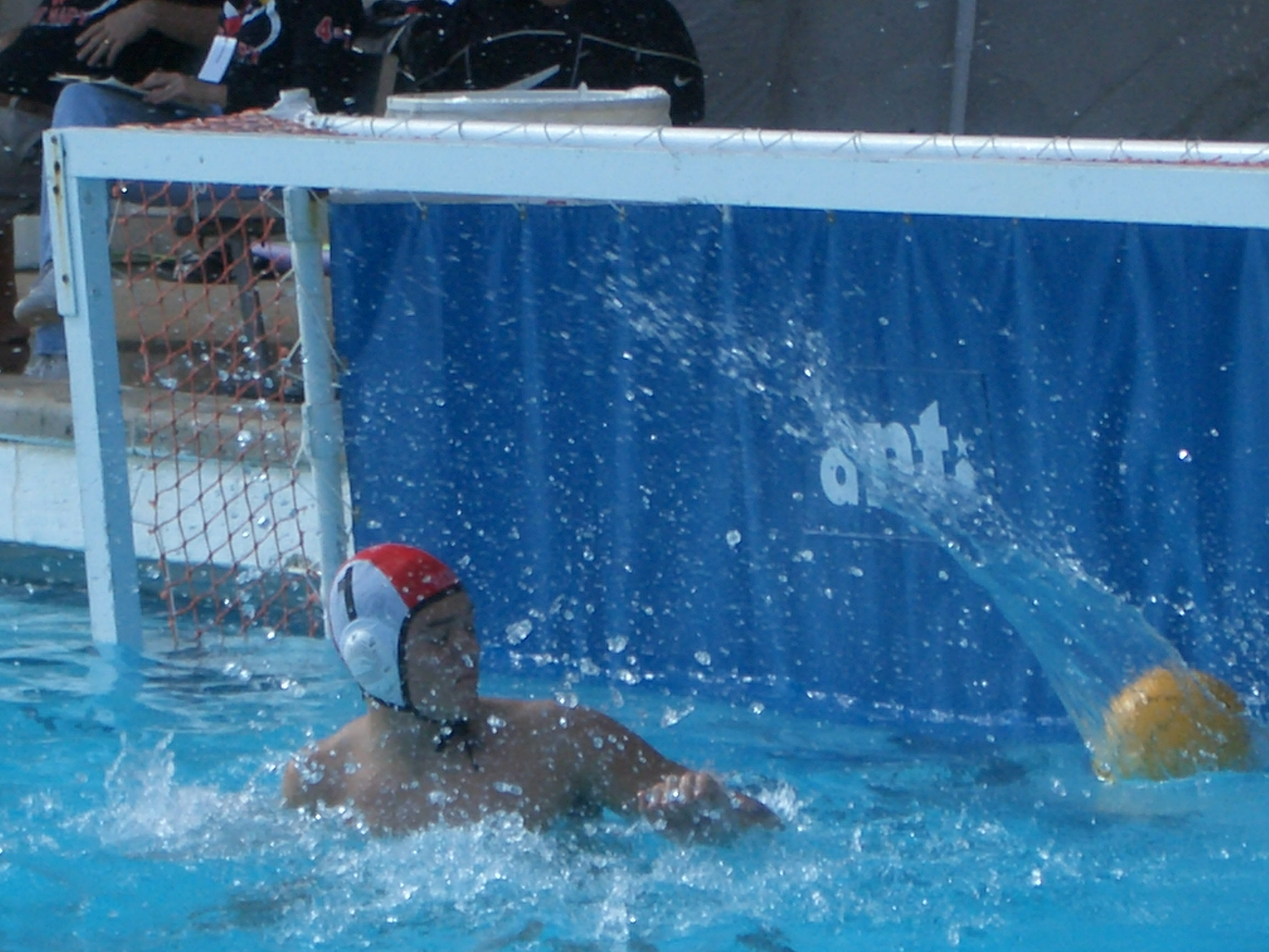 I took this photo during a high school water polo game in Kendall, southwest of Miami, Florida. The plume of water clearly demonstrates the flight of the ball during the lob. It wasn't staged; the goalie didn't see it coming until too late. Ryanjo 01:32, 8 April 2006 (UTC)